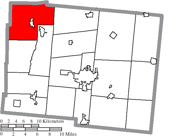 Map of the municipal and township boundaries of Logan County, Ohio, United States, as of the 2000 census, with the location of Stokes Township highlighted. Township borders are shown only in unincorporated areas in order to differentiate incorporated and unincorporated areas more clearly.